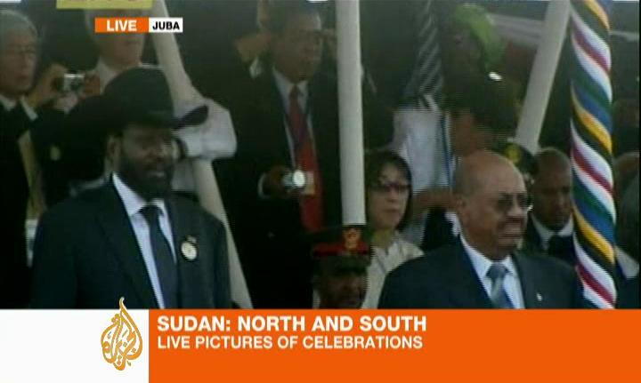 Omar al-Bashir (R), the president of Sudan, watches a ceremony celebrating the birth of South Sudan with Salva Kiir Mayardit, the former commander of the rebels who fought Bashir and now the president of the world's newest nation.